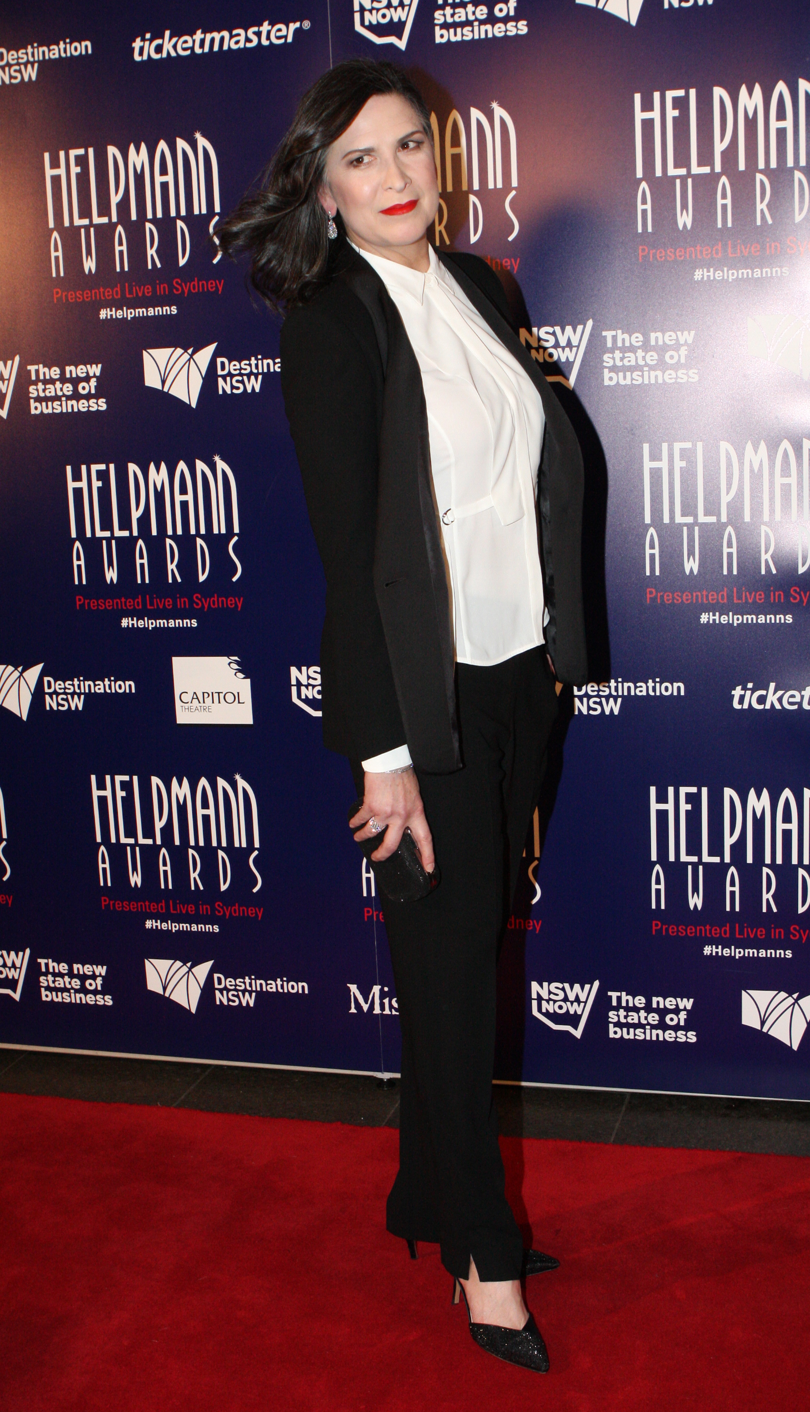 Pamela Rabe at the 2015 Helpmann Awards at the Capitol Theatre in Sydney, Australia